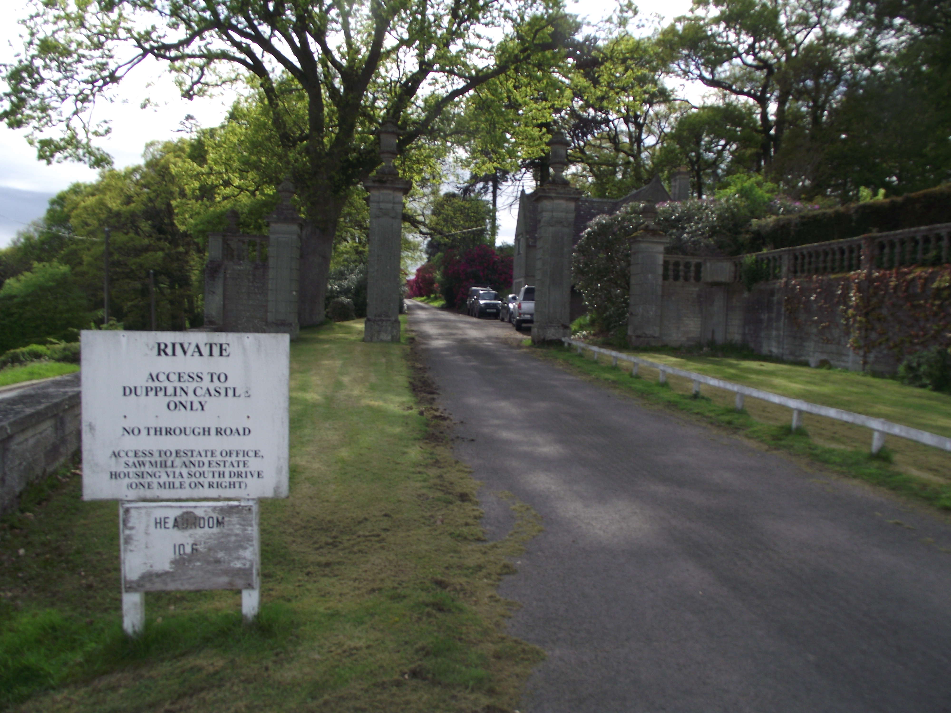 Dupplin Castle, Perthshire